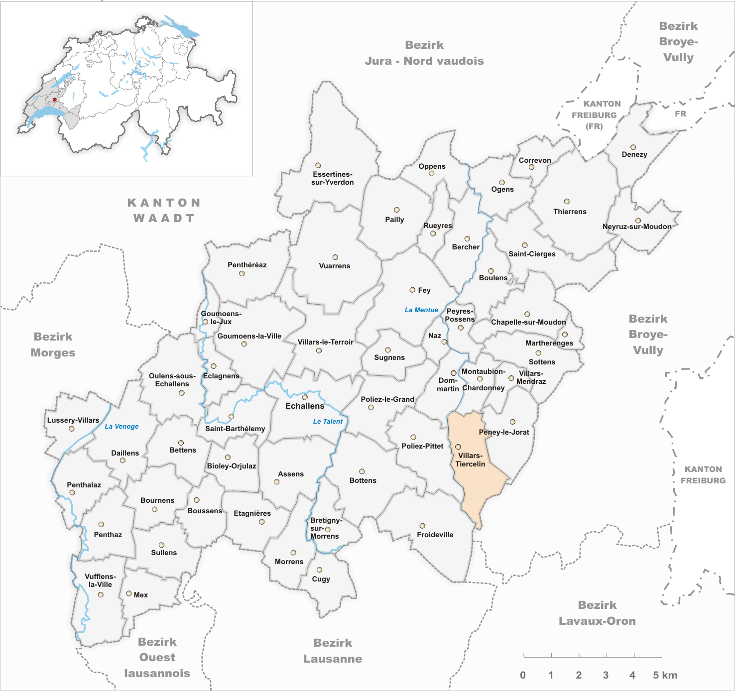 Municipality Villars-Tiercelin